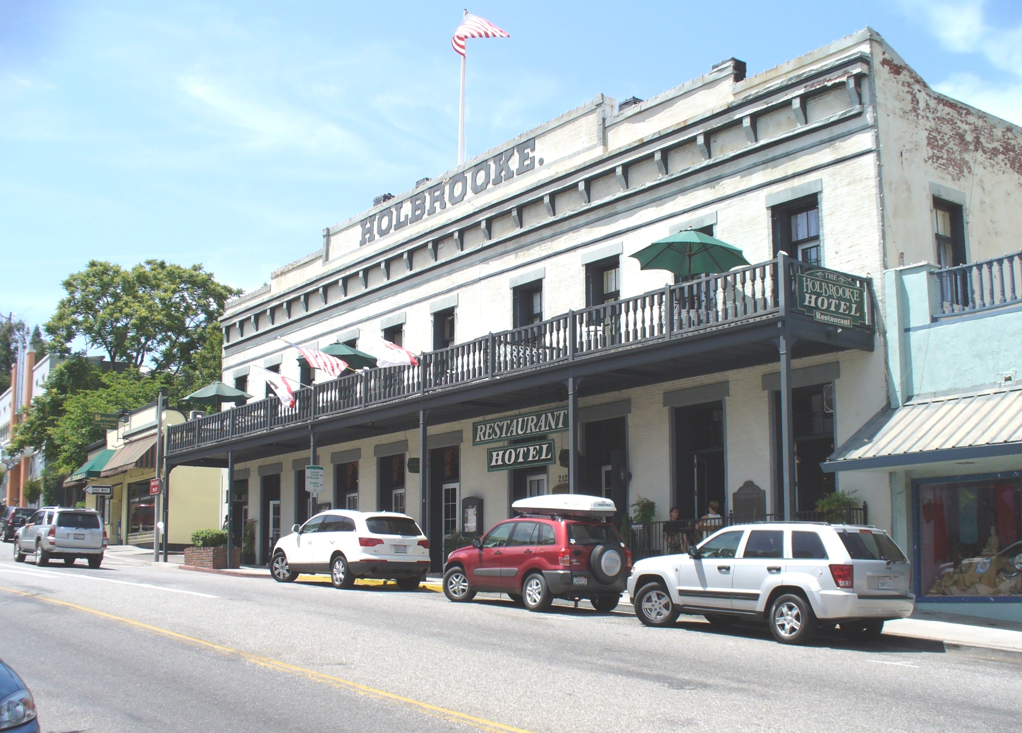 Holbrooke Hotel